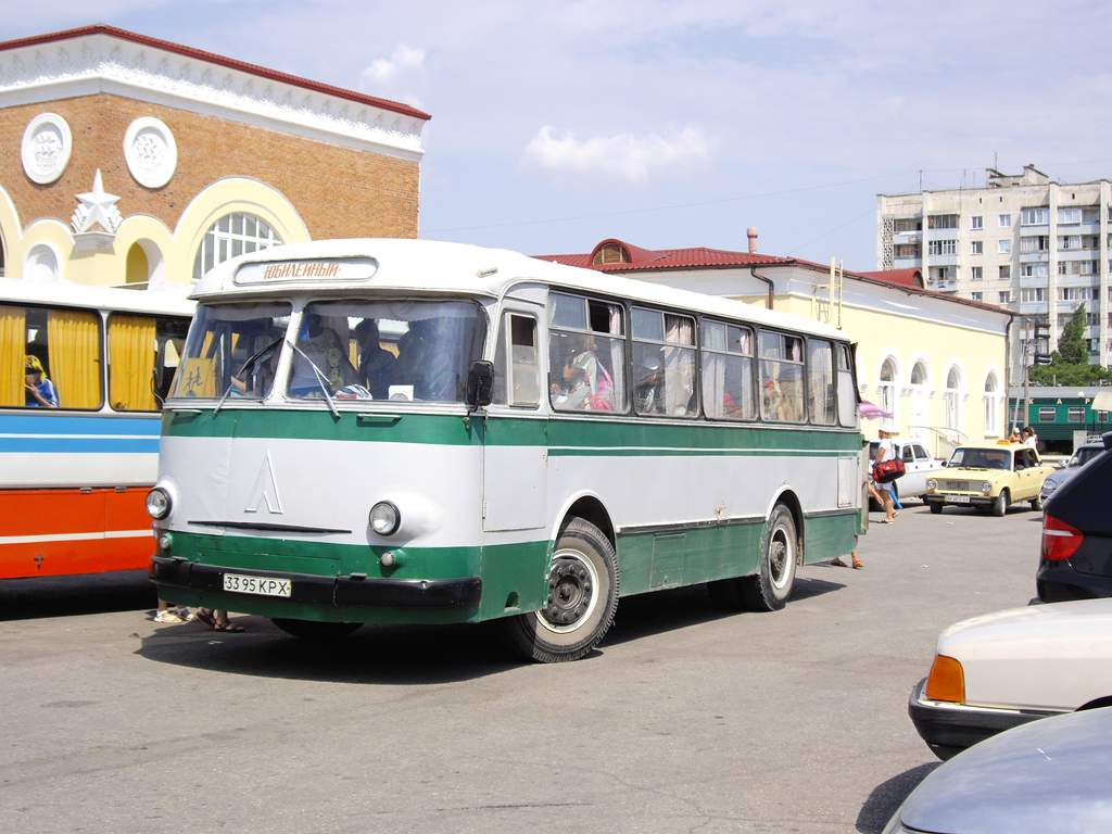 LAZ 695M (ЛАЗ 695М) bus (3395 KPX) in Eupatoria, railway station, Ukraine. Built 1974. Ювілейний Євпаторія operator.